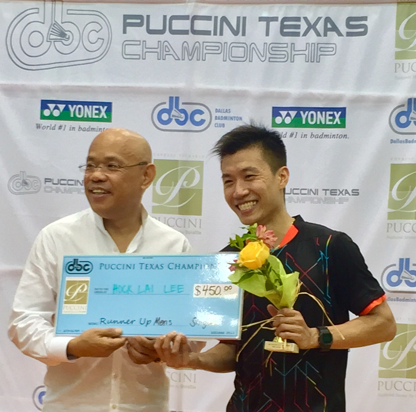 Photo of Hock Lai Lee (right) being awarded prize money.